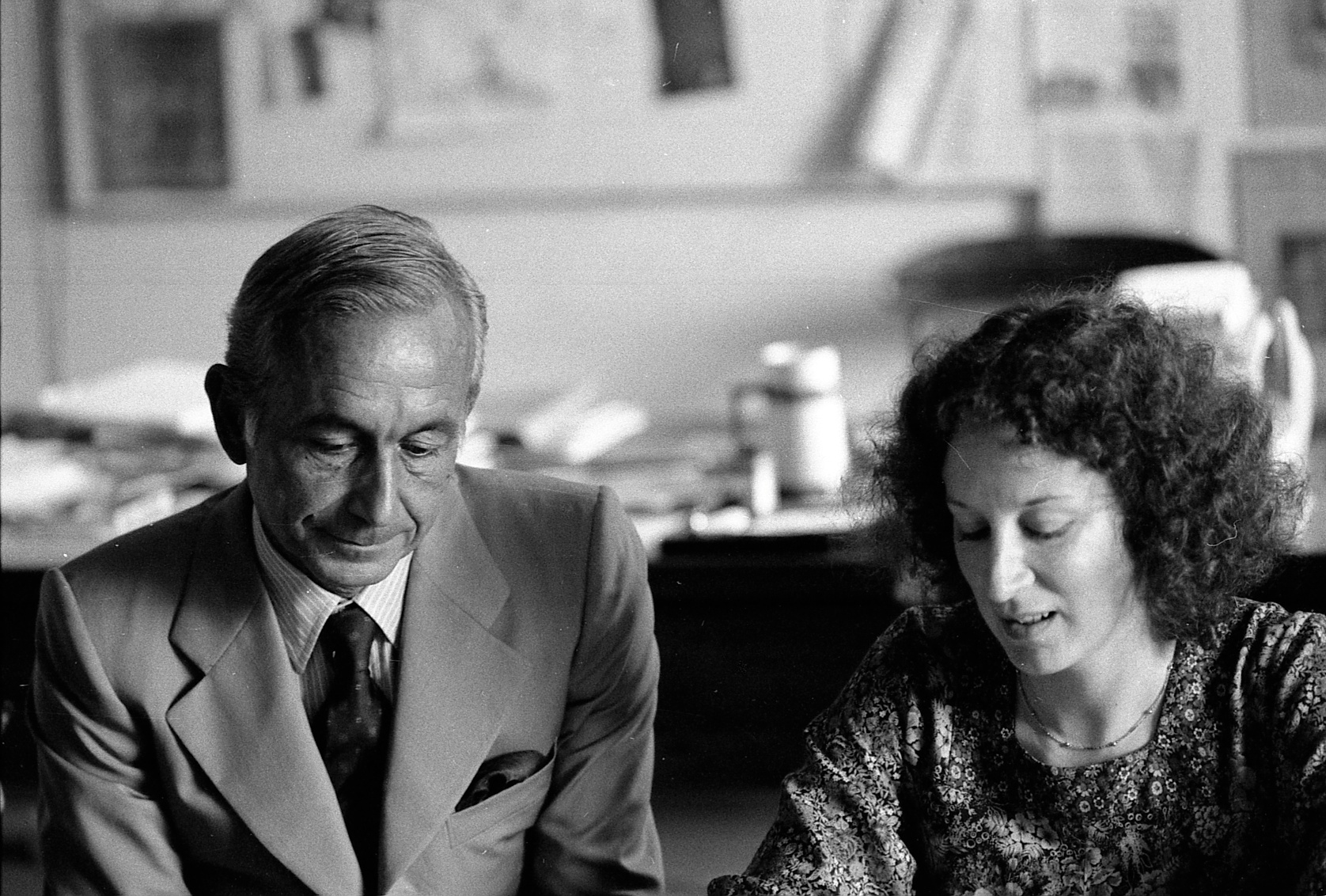 Canadian author Margaret Atwood with her first italian publisher Mario Monti (Longanesi & C) in Milano, 1976 for the italian translation of "The Edible Woman", "La donna da mangiare"